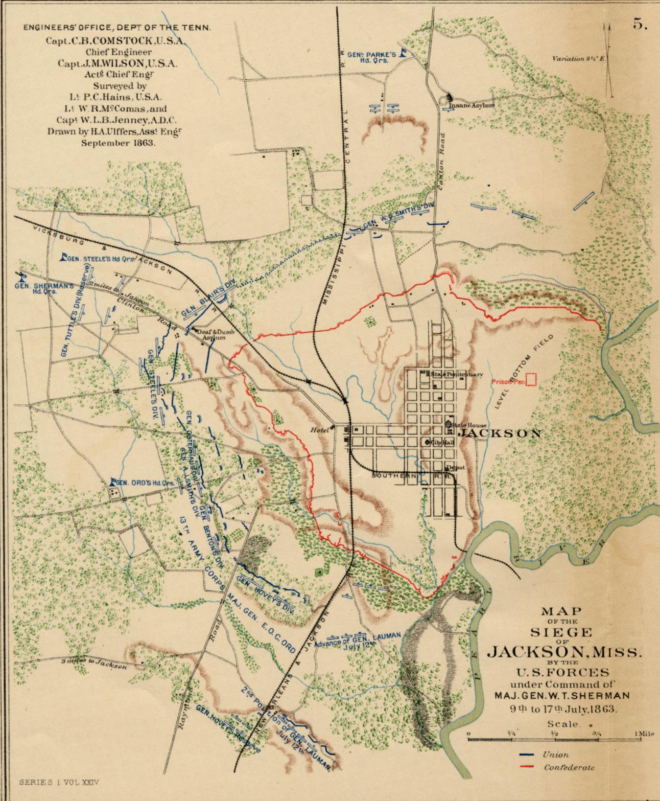 Map of the Siege of Jackson, Miss, 9. - 17. July 1863